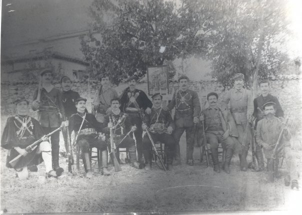 Captain Lazaros Apostolidis - Greek fighters of the Macedonian struggle.